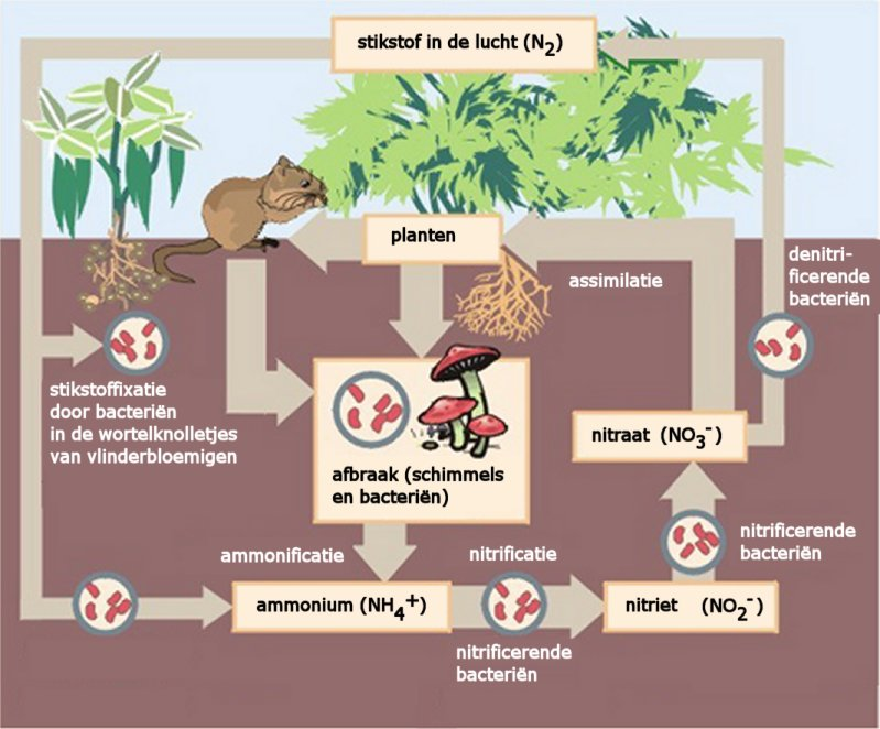 Nitrogen Cycle. Picture from commons. Now with Dutch text.